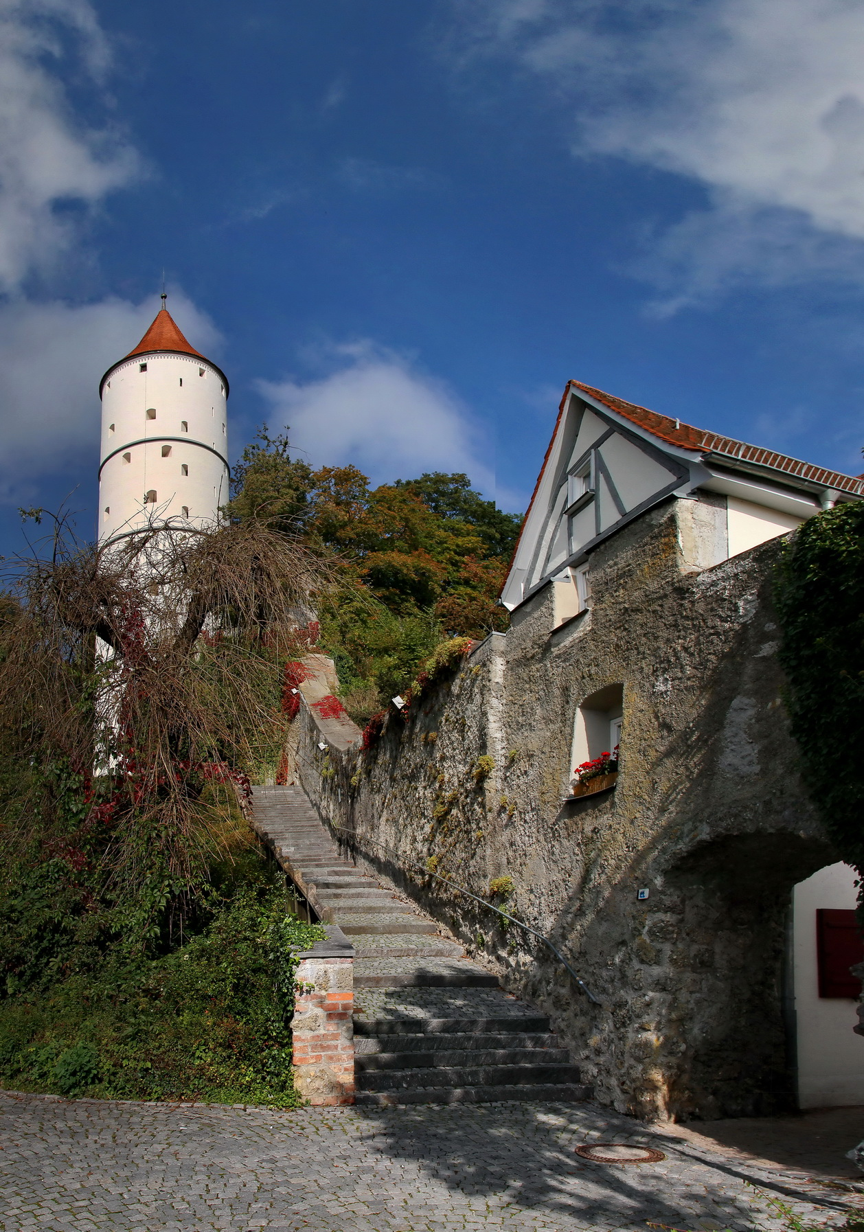 Stitched Panorama